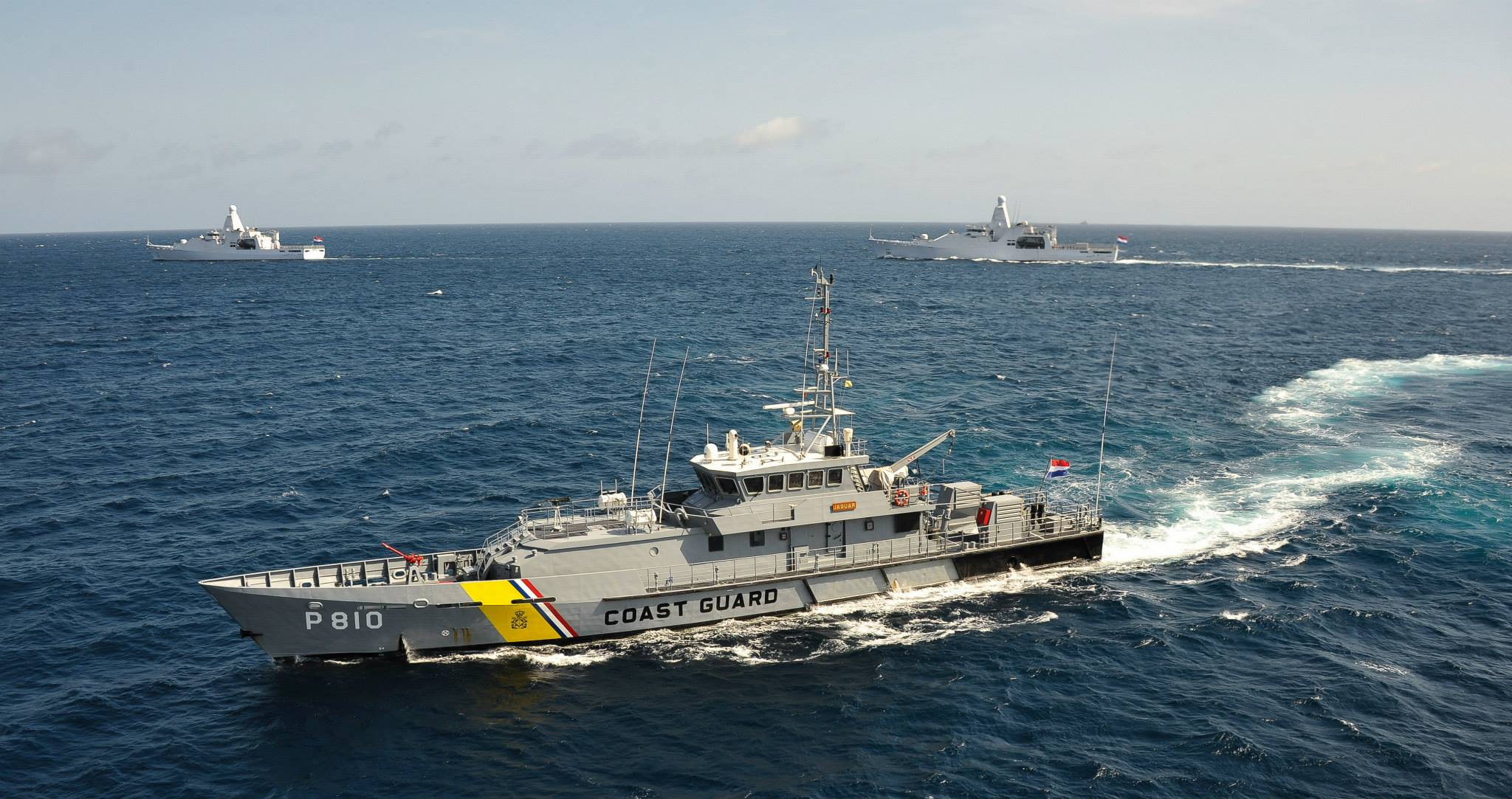 DCCG Damen Stan Patrol with 2 Netherlands navy Holland-class OPV's